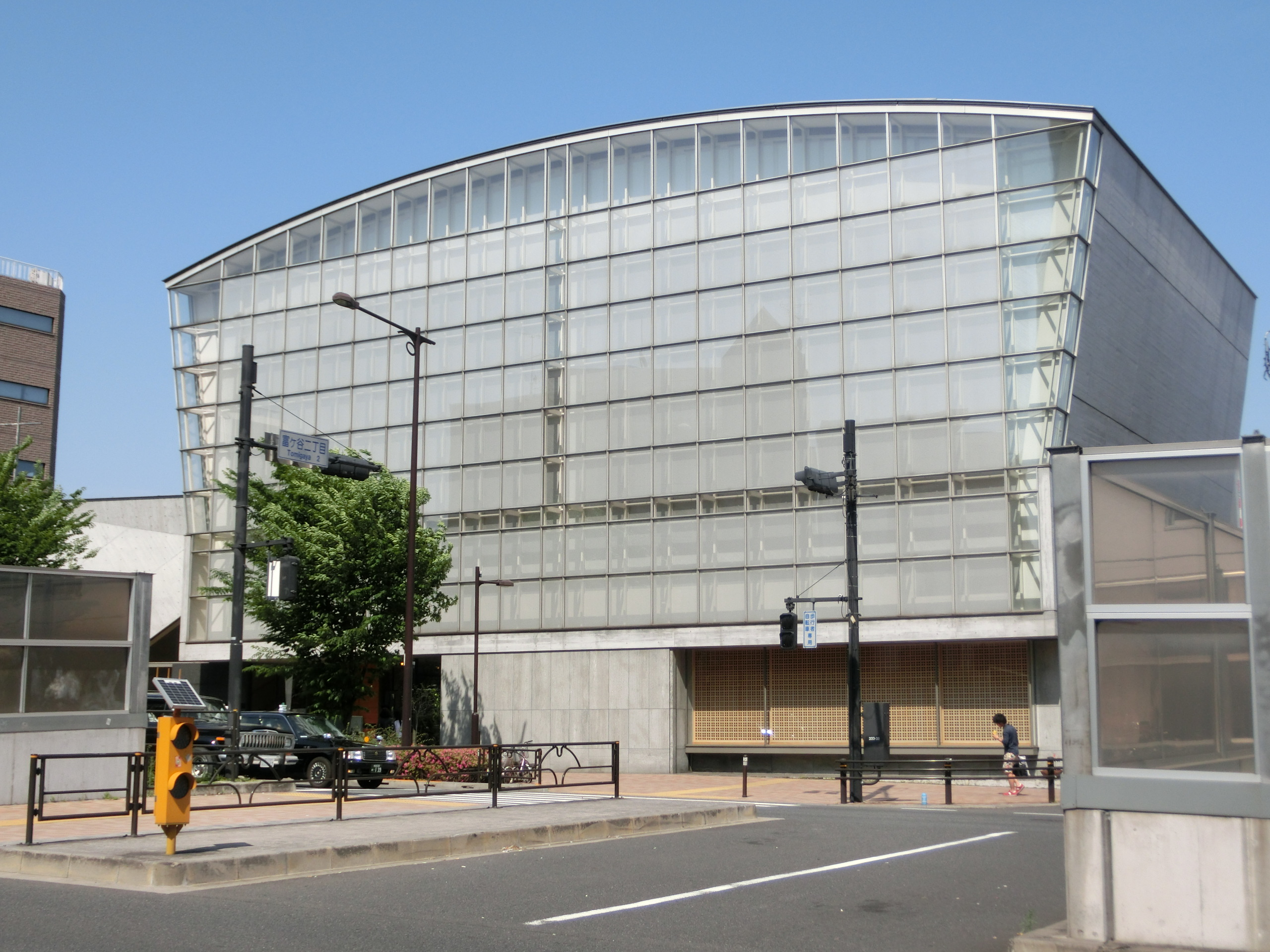 Tokyo Church of Christ